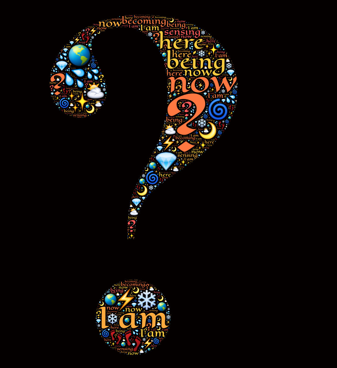 Question mark with word art in it.